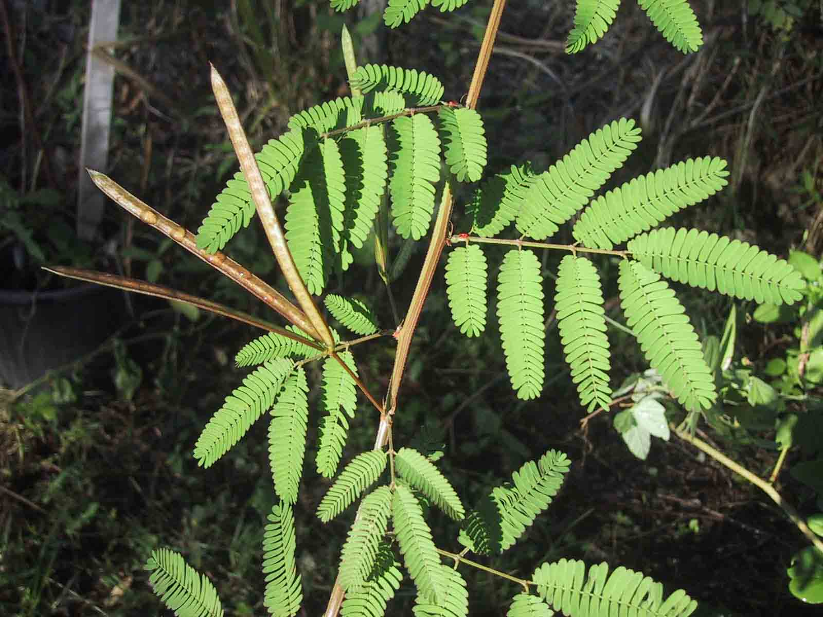 Desmanthus pernambucanus Photo by Chris Gardiner